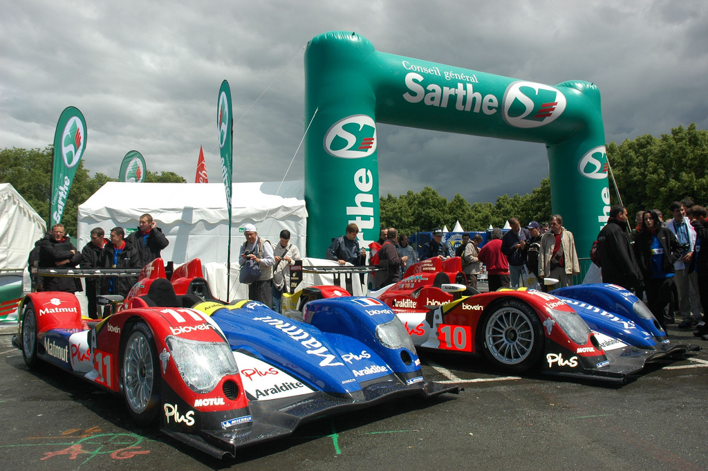 The two Team Oreca Matmut AIM Oreca 01-AIMs at scrutineering for the 2009 24 Hours of Le Mans